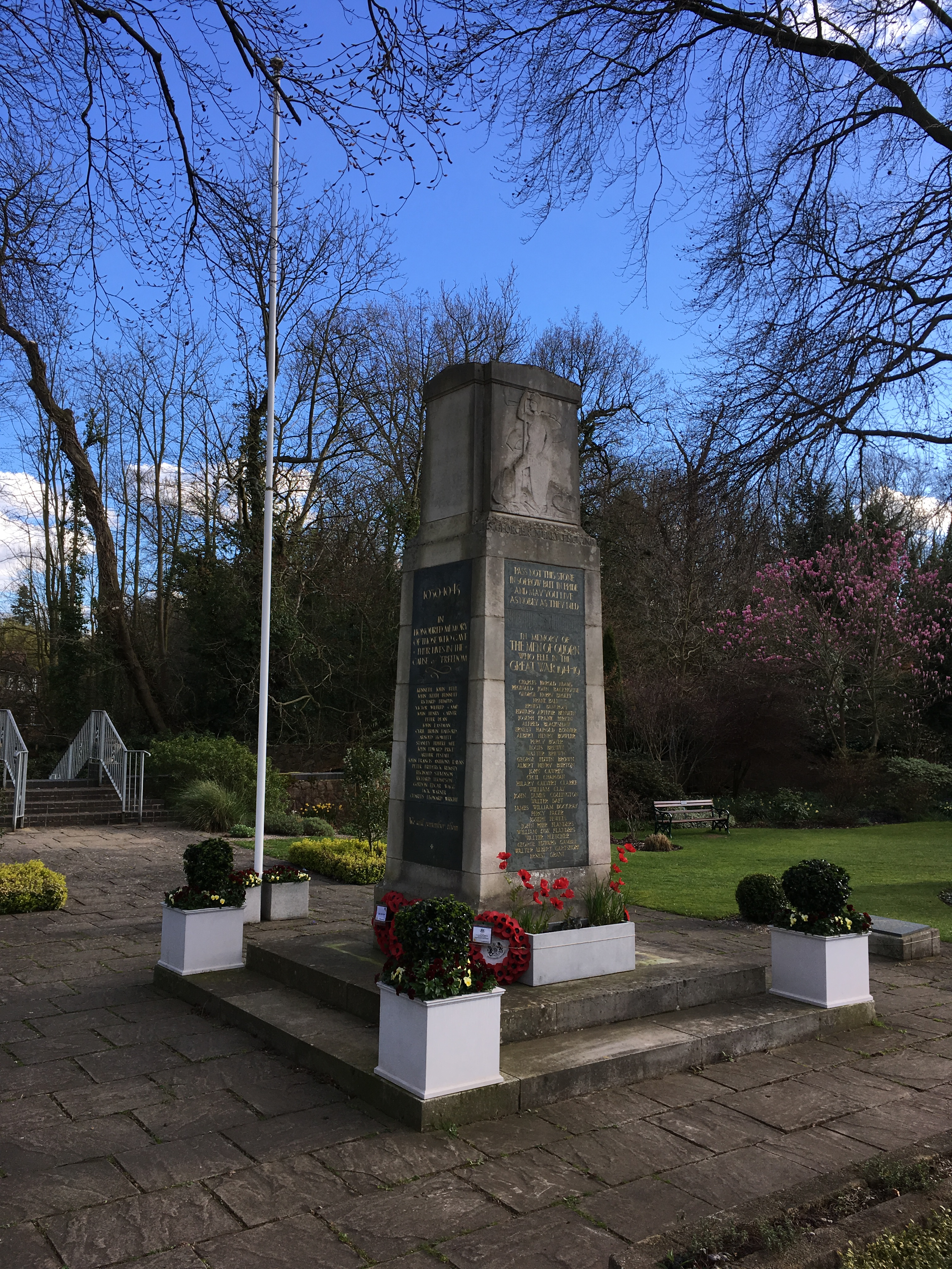 Quorn (Quorndon), Leicestershire, England - War Memorial and gardens